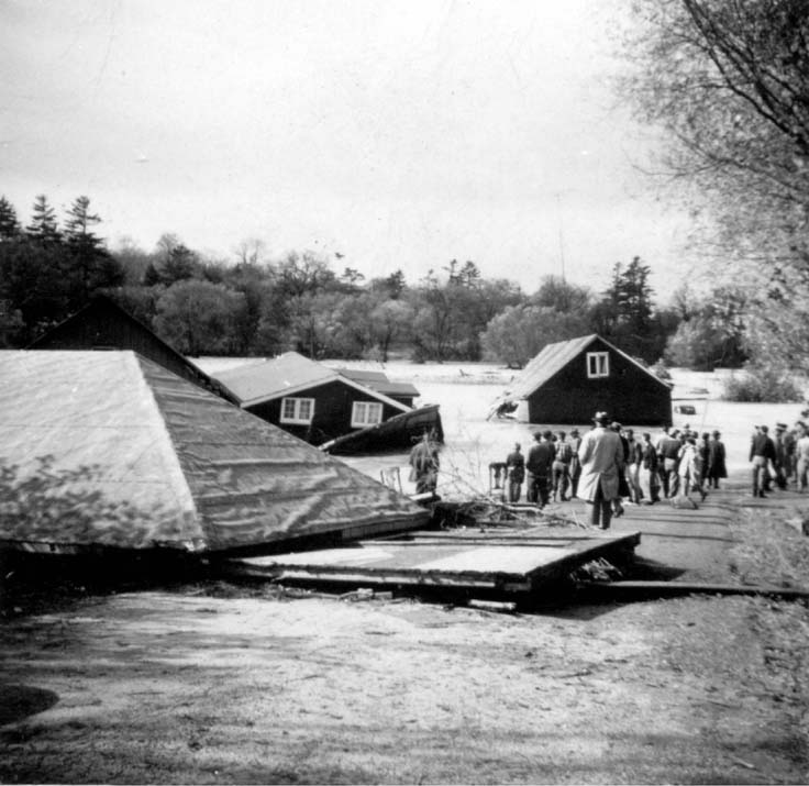 Another view of the house shown in File:Hurricane Hazel -- house1.jpg that may or may not have been floating. The picture was taken from well below the high-water mark, as can be seen from the nearer debris, parts of a house that had floated downstream.